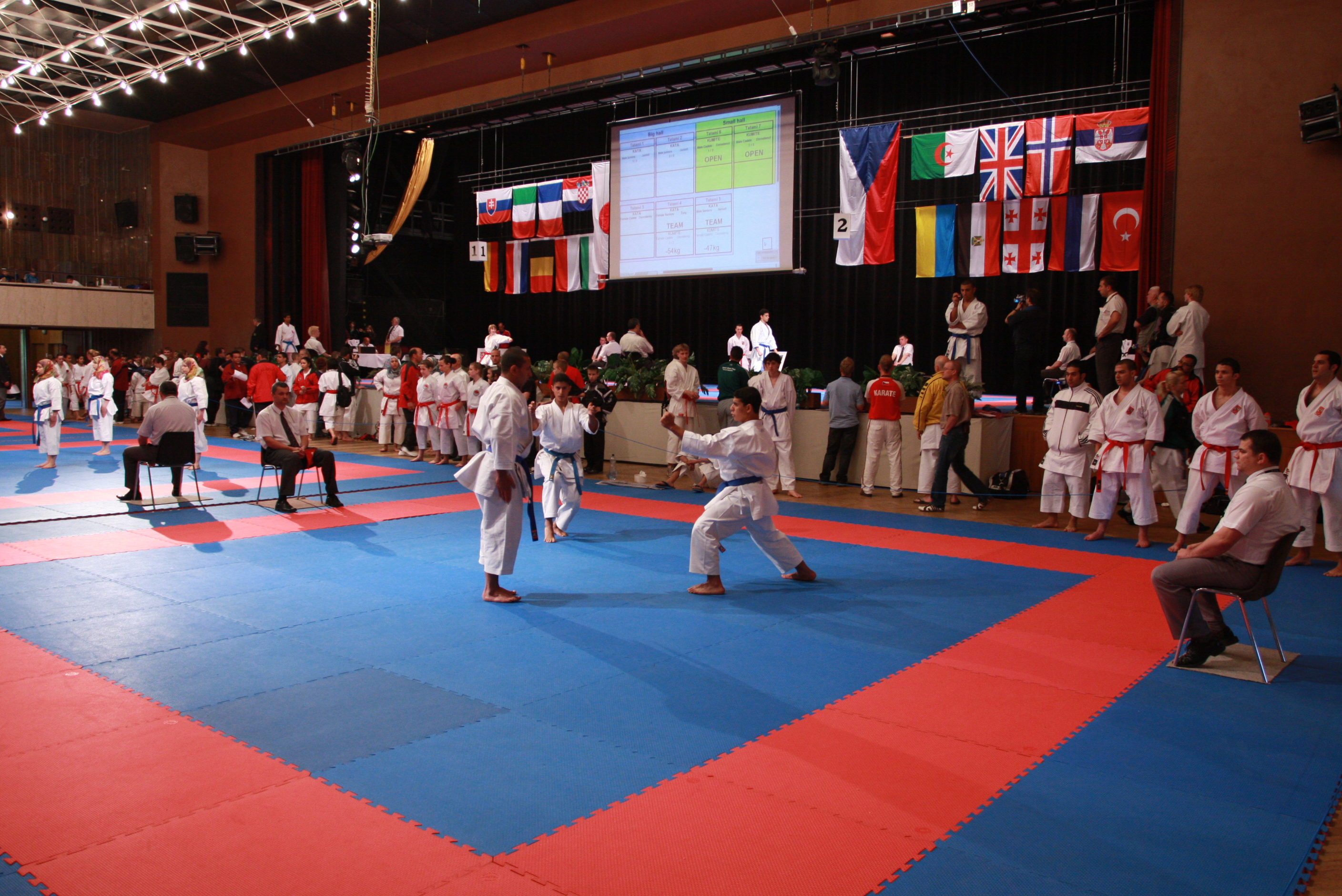 foto of Grand Prix Hradec Králové